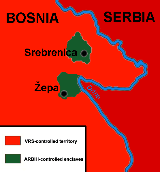 Bosniak Srebrenica and Žepa enclave in 1994. ARBIH = Army of the Republic of Bosnia and Herzegovina, VRS = Bosnian Serb Army